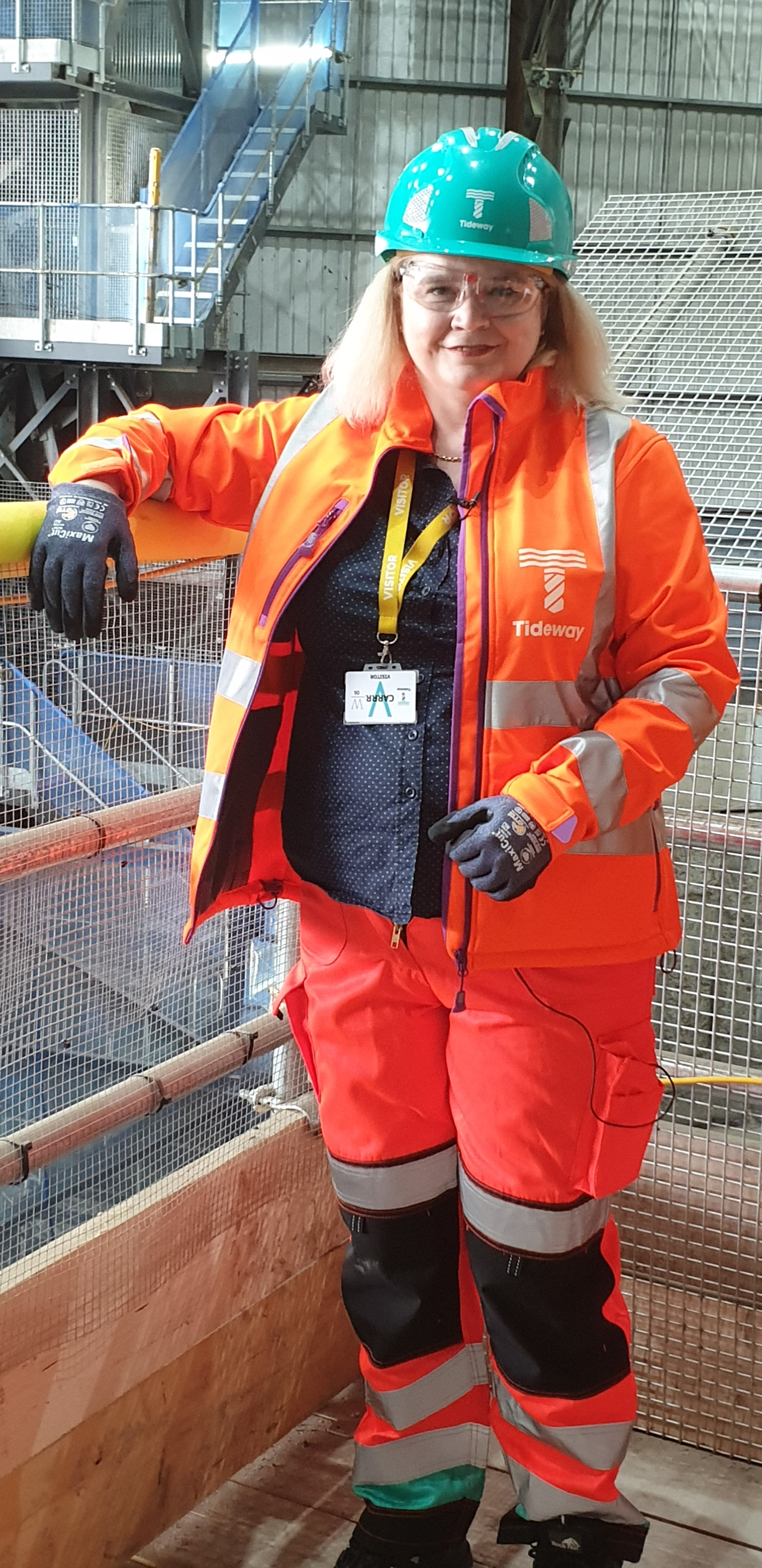 A photograph of Elizabeth Donnelly, Chief Executive Officer of the Women's Engineering Society, dressed in Personal Protective Equipment (PPE) at Thames Tideway in London on the occasion of the unveiling of their Tunnel Boring Machine, Rachel